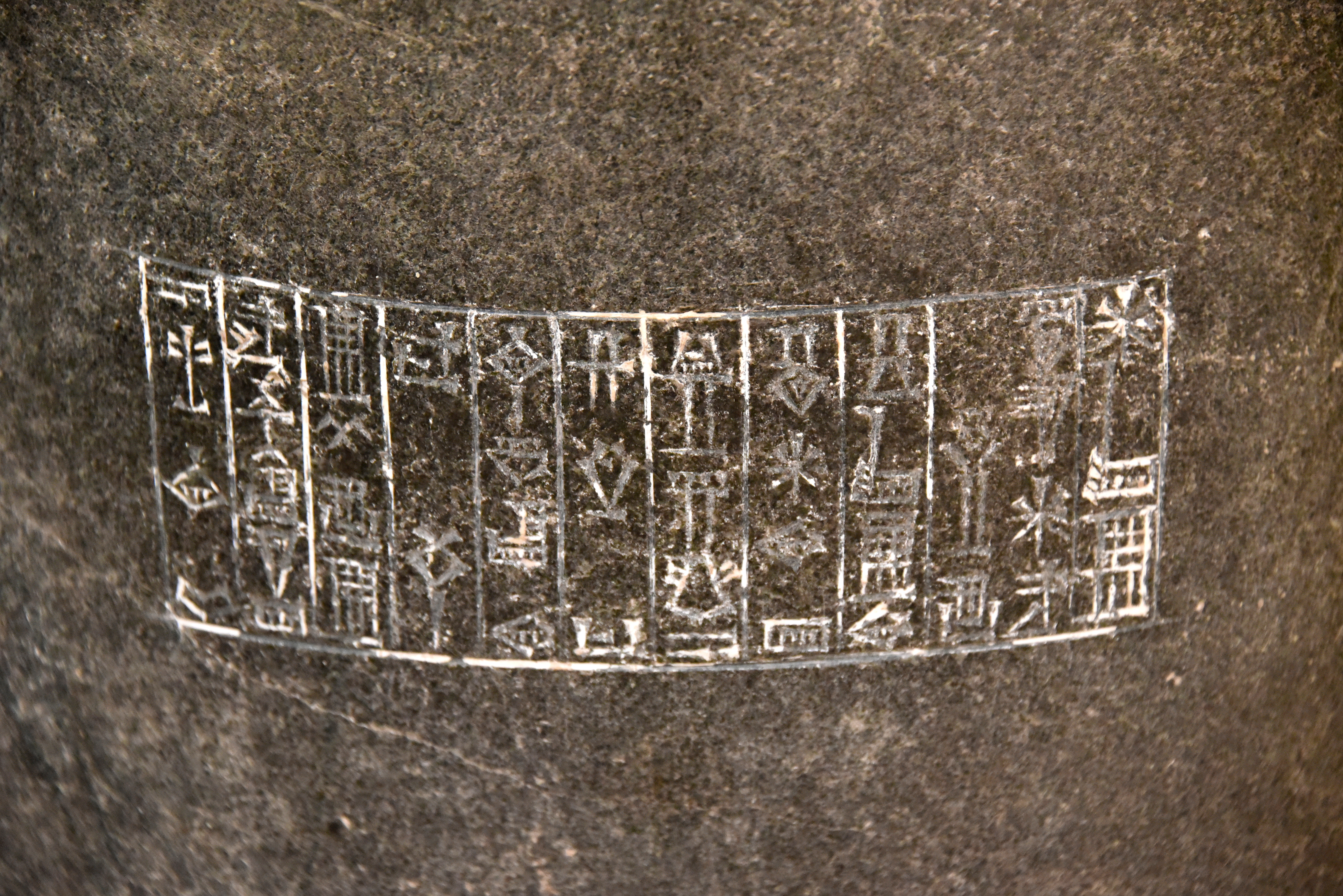 Cuneiform inscription on a diorite mortar stating that this was an offering from Gudea, ruler of Lagash, to the god Enlil. From Nippur, Southern Mesopotamia, Iraq. Teign of Gudea, 2144-2124 BCE. Ancient Orient Museum, Istanbul.